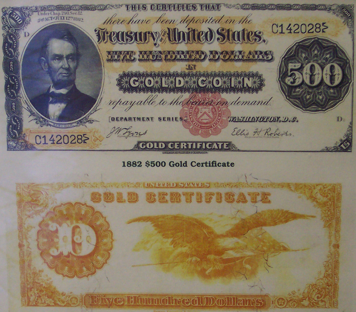 $500 Gold note from the US treasury. Highest bill amount to have Lincoln's portrait